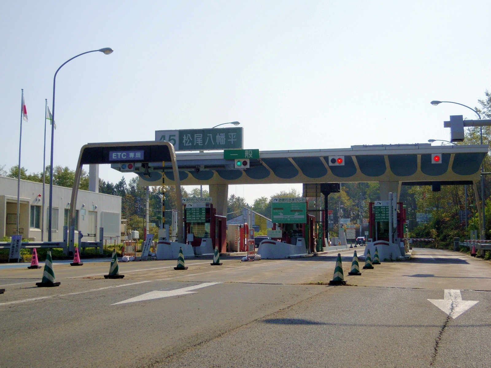 This Interchange, Matsuo-Hachimantai Interchange, is on Tohoku Expressway, in Hachimantai City, Iwate Prefecture, Japan.